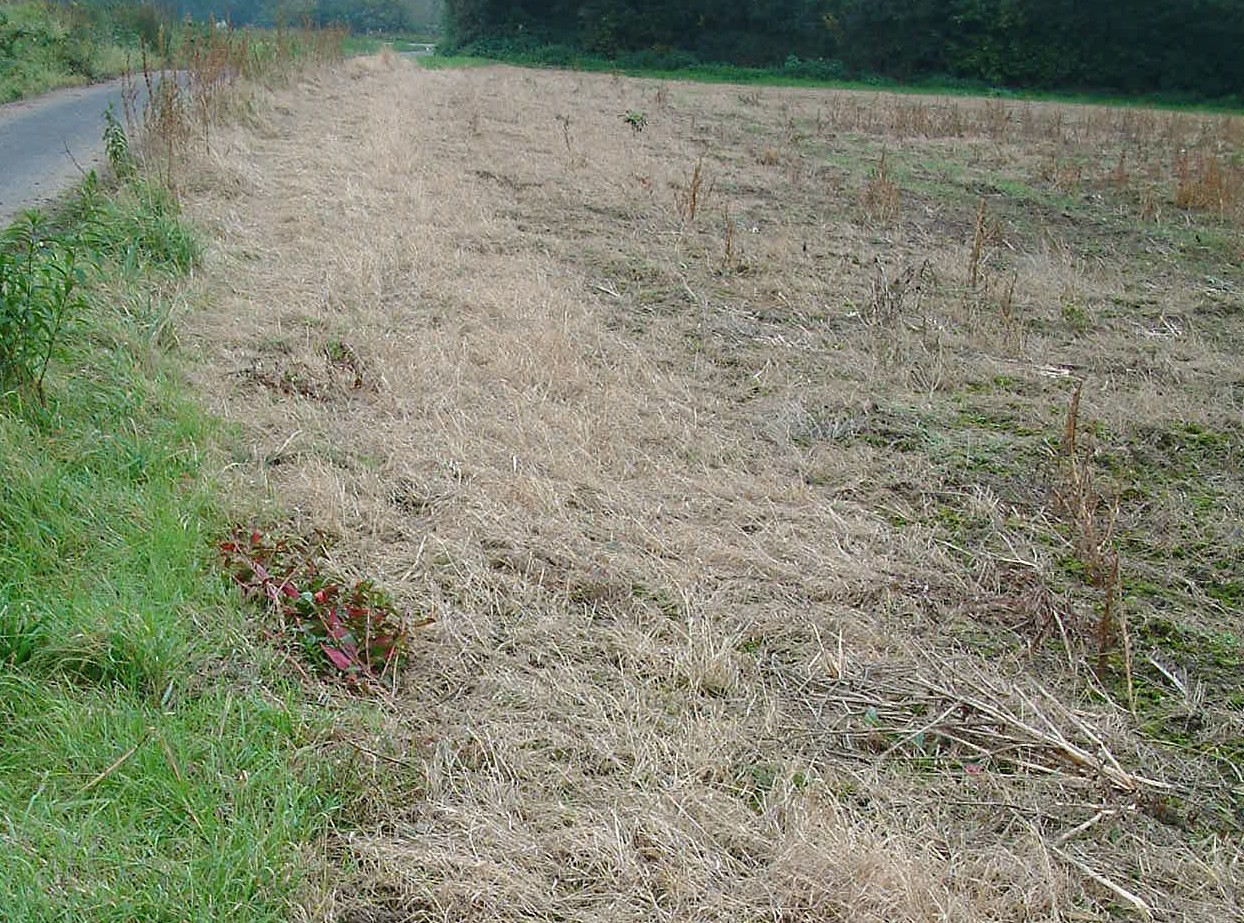 Field, after treatment with herbicides.